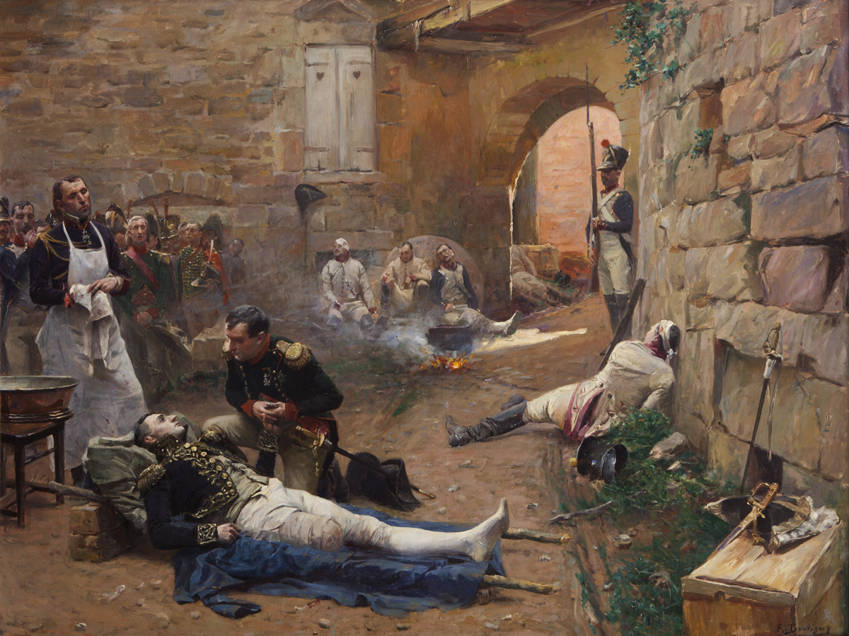 Marshal Jean Lannes, Duc de Montebello, Prince de Sievers, wounded at the battle of Essling, on May 22nd 1809, had his left leg amputated (right leg on the picture) and died a few days after that. Here, he is in the presence of his master and friend, Emperor Napoleon I.